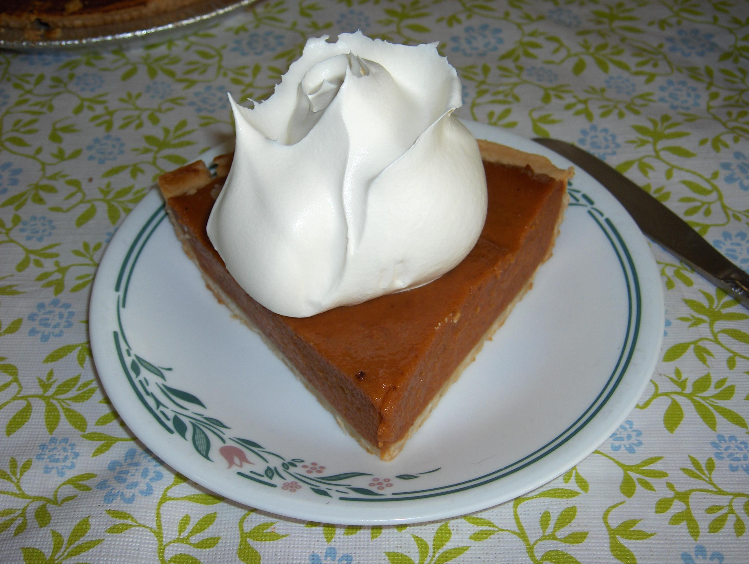 Pumpkin pie with whipped cream